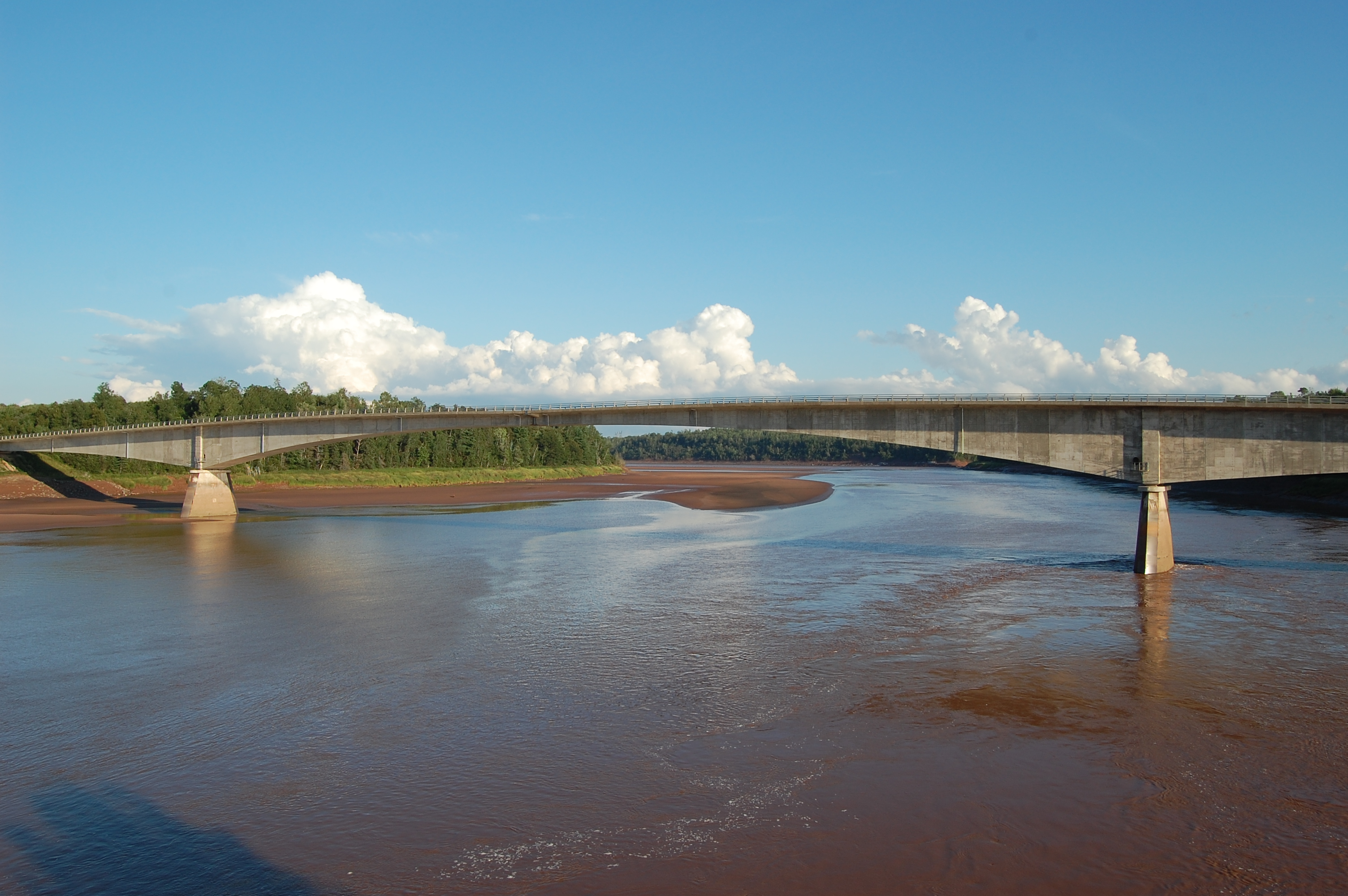 View of South Maitland Bridge over the Shubenacadie River, Nova Scotia.